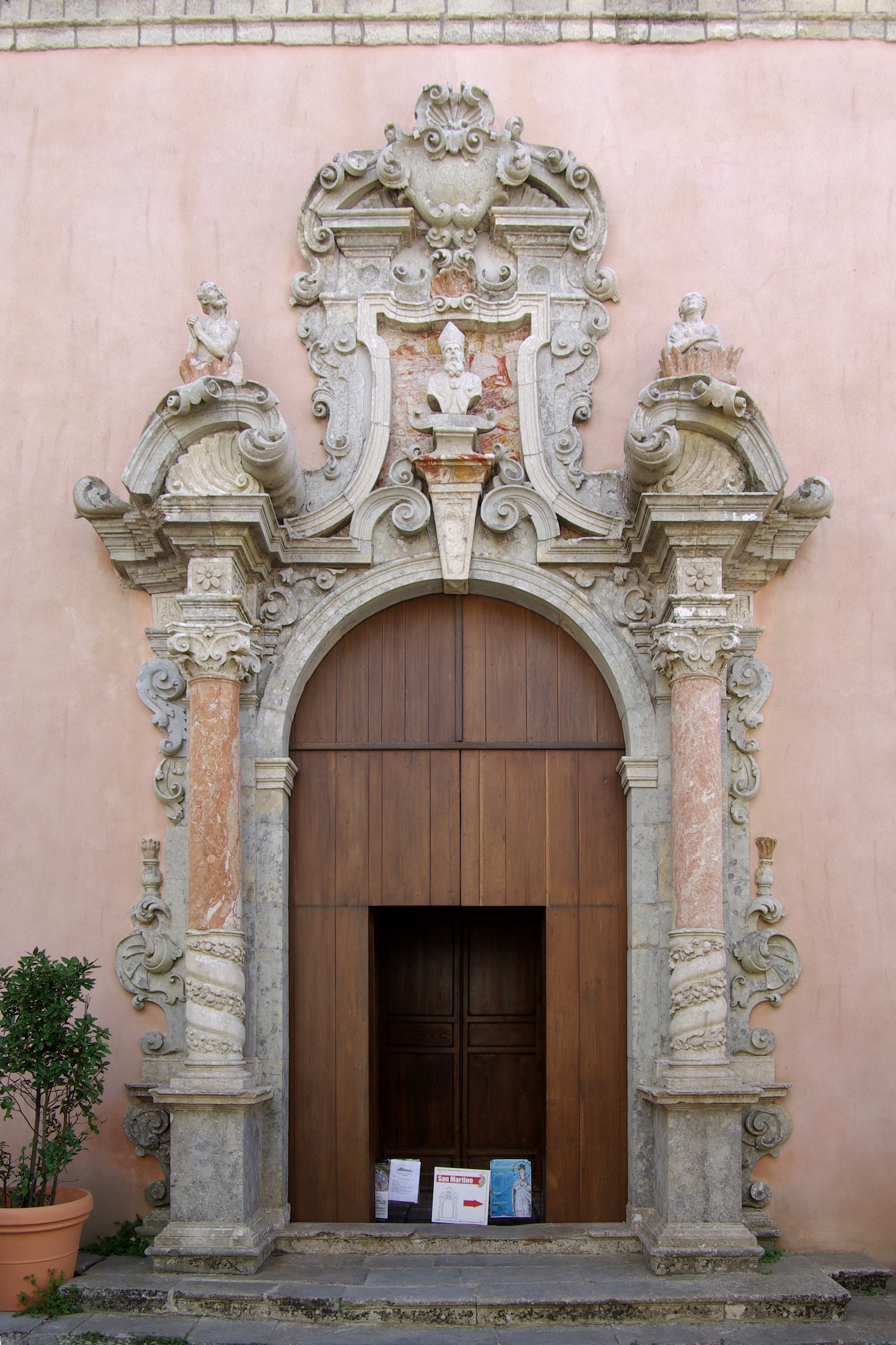 Italy, Sicily, Erice, San Martino, entrance